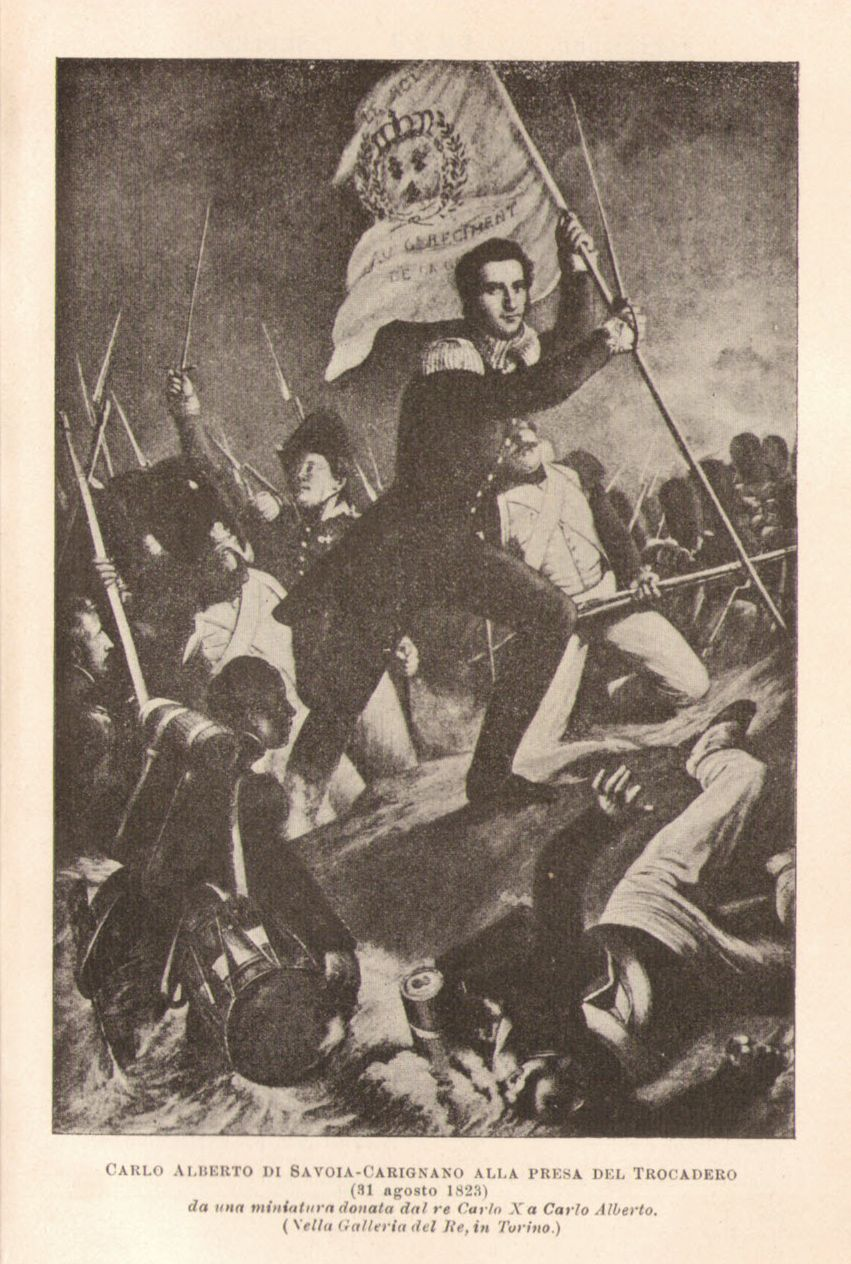 Carlo Alberto of Savoy-Carignano won the Trocadero (31 August 1823). Taken from a thumbnail donated by King Charles X of France to Carlo Alberto.